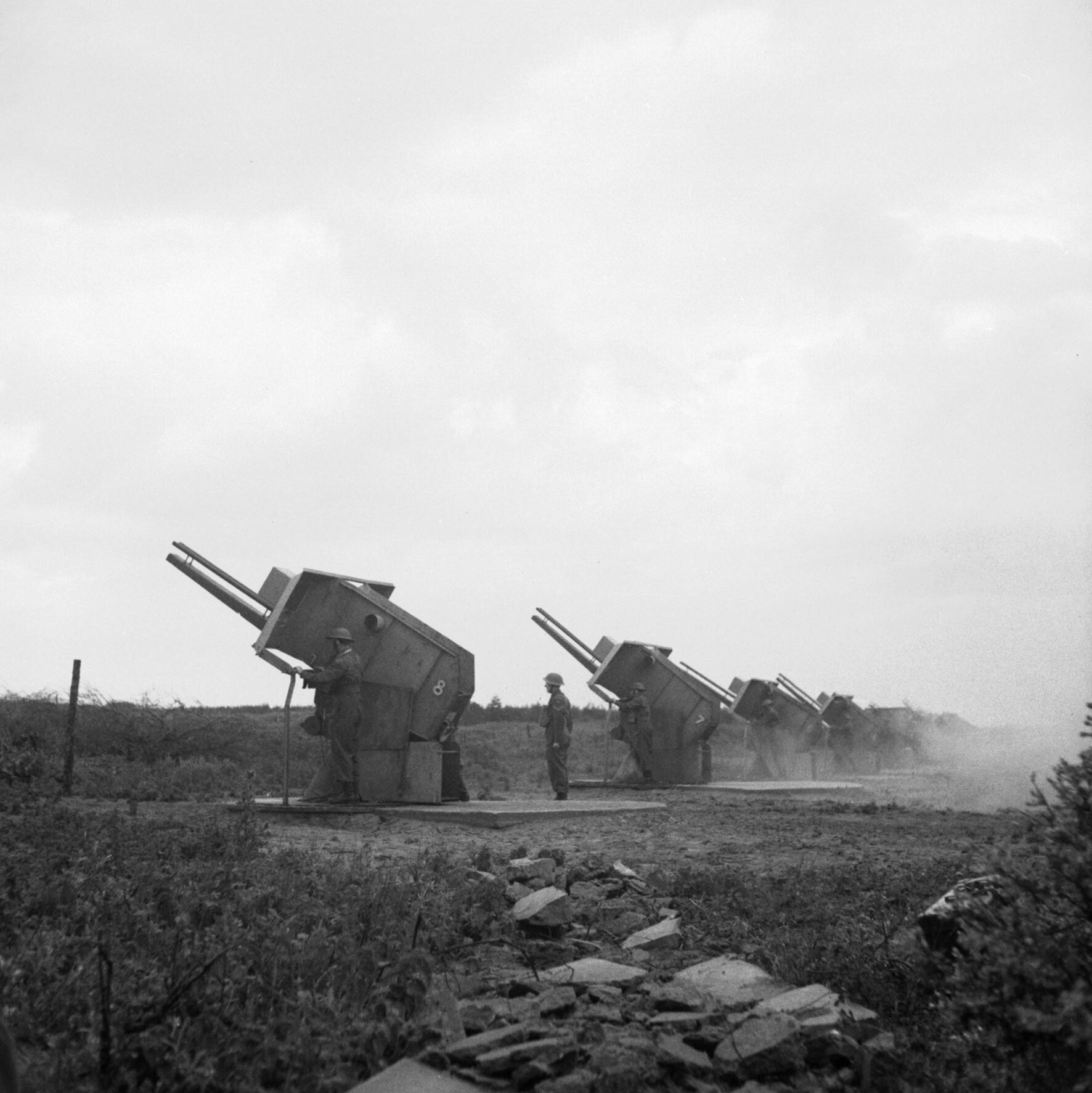 The Home Guard 1939-45 Anti-aircraft rocket or 'Z' Battery manned by the Home Guard on Merseyside, 6 July 1942.